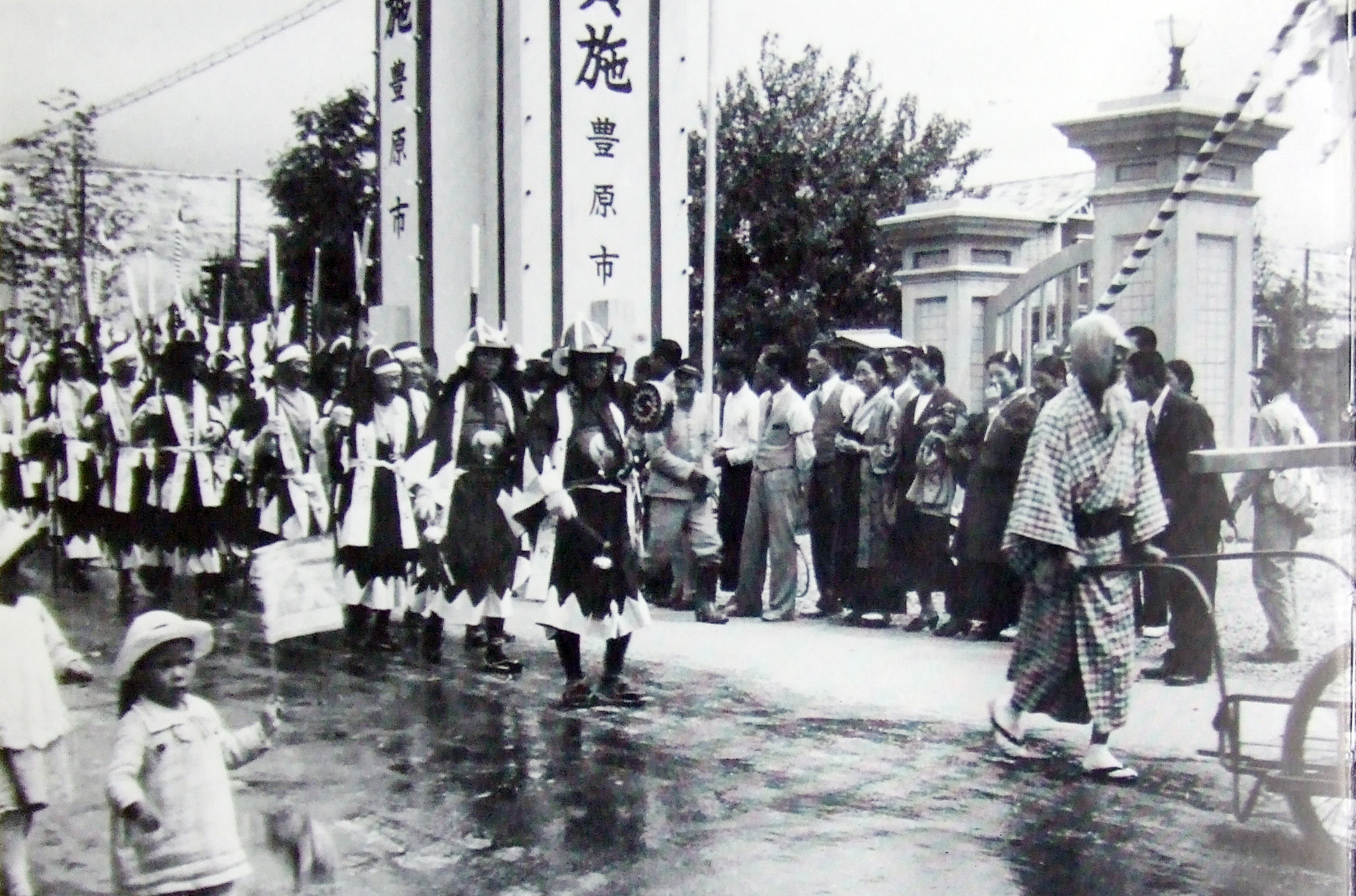 Citizen paraded the streets in celebration of Establishment of Toyohara City